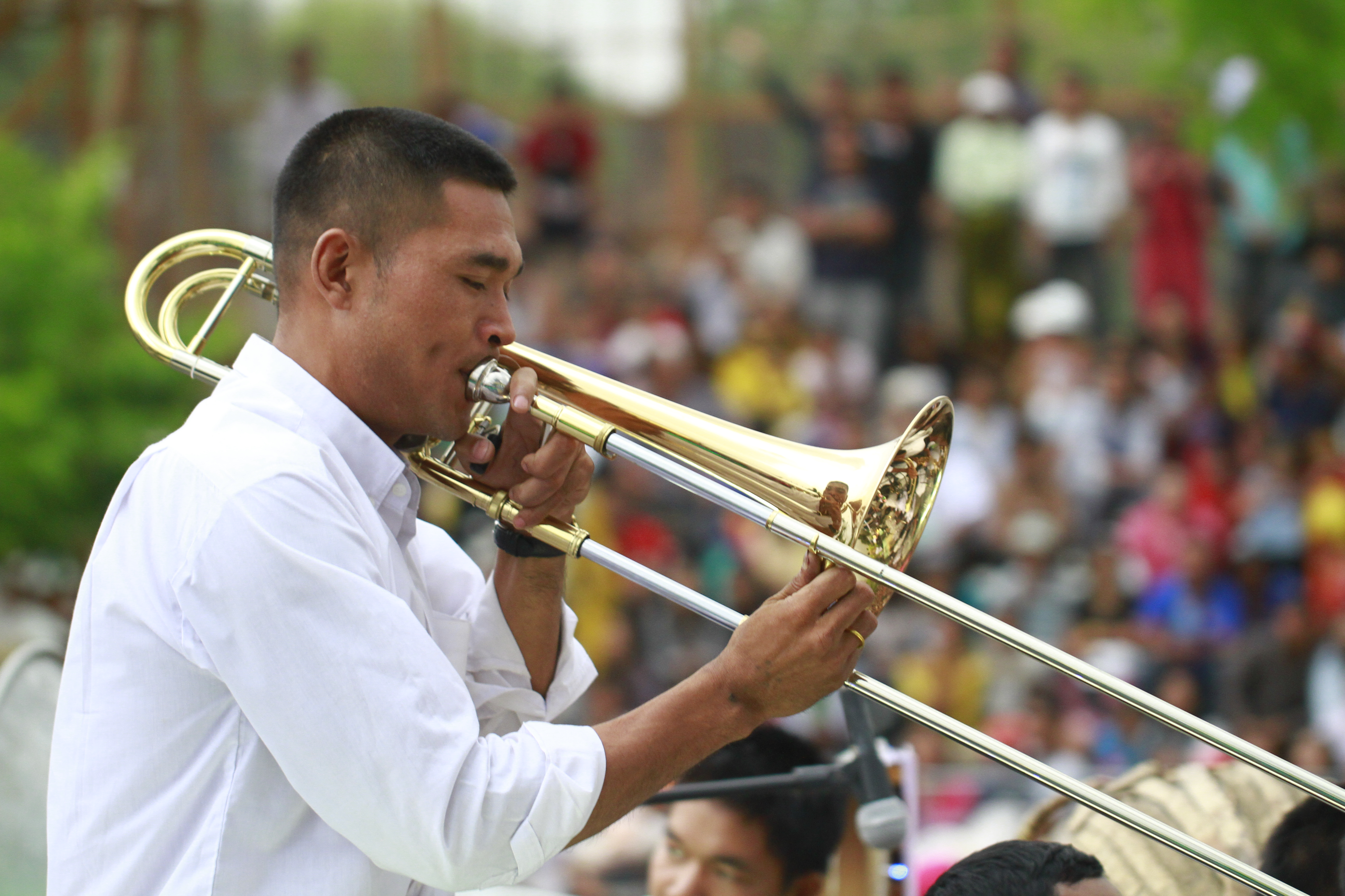 a trombonist